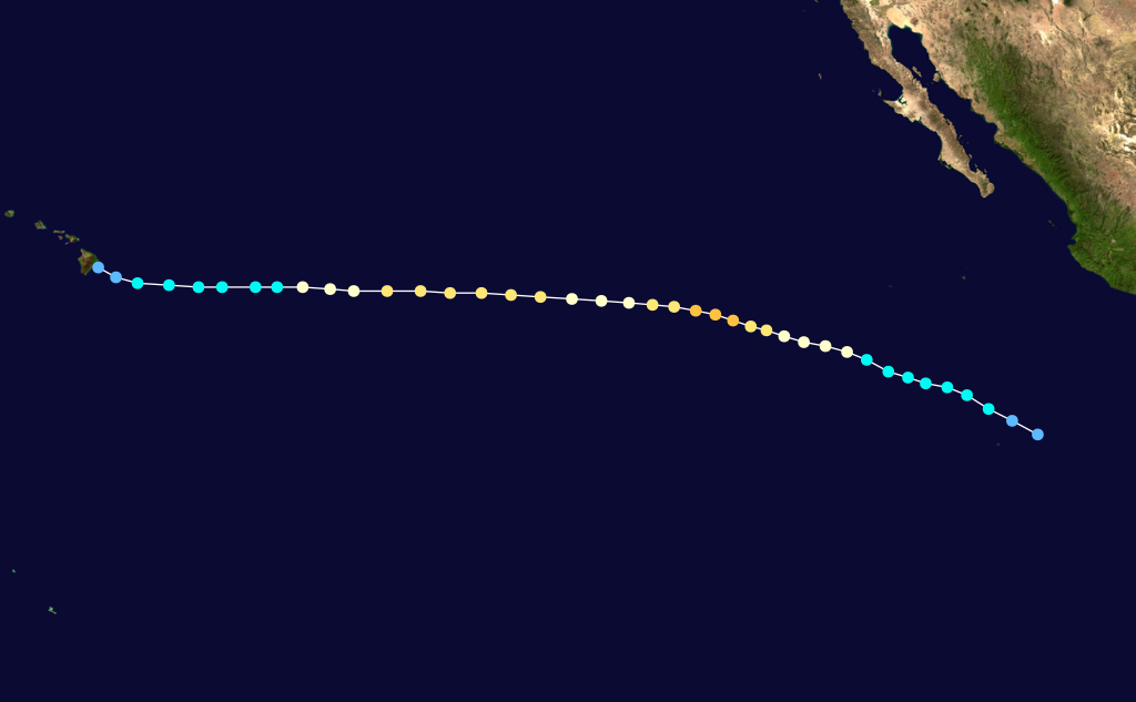 Hurricane Fefa (1991) track. Uses the color scheme from the Saffir-Simpson Hurricane Scale.